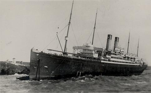 White Star Line's Celtic ashore aground off the coast of Cobh, Ireland in 1928.